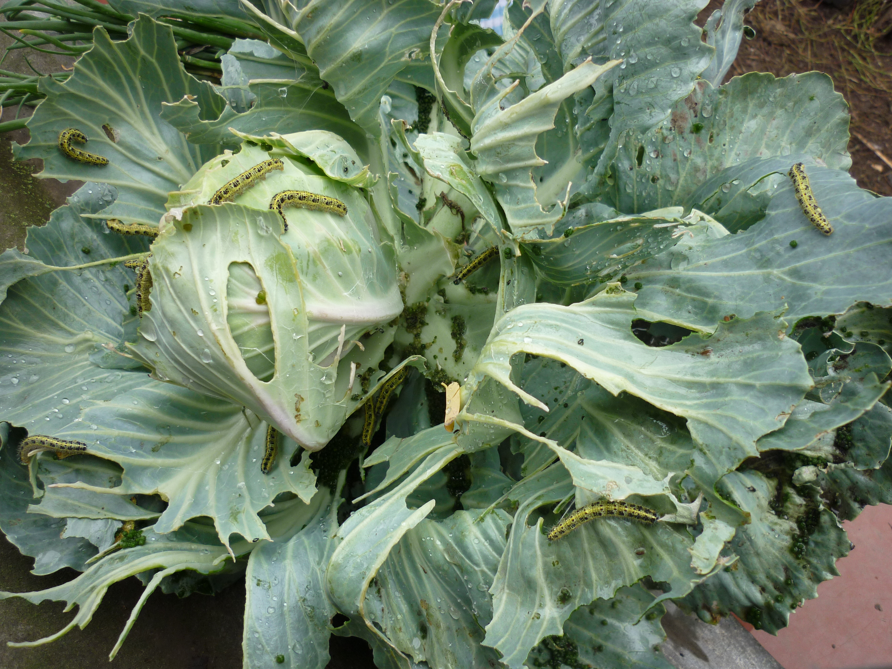 Pieris brassicae